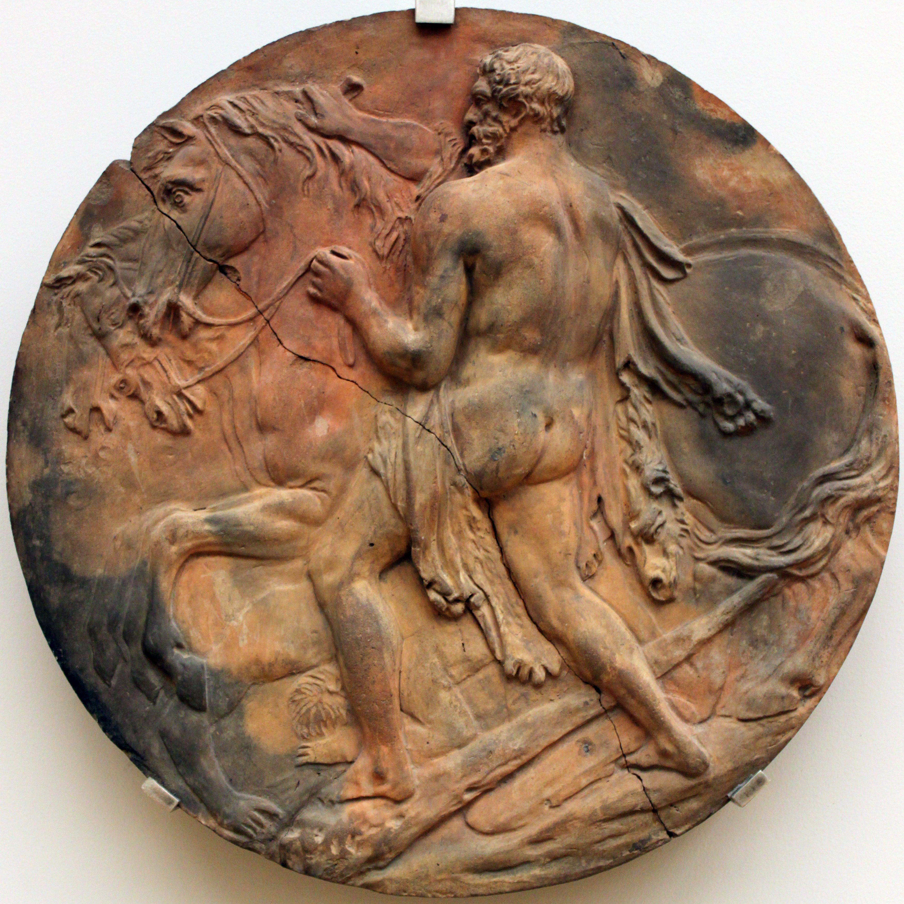 Johann Gottfried Schadow (1764–1850) Description German sculptor Date of birth/death20 May 176427 January 1850Location of birth/deathBerlinBerlinWork locationBerlinAuthority control VIAF: 27170885 LCCN: n83006938 GND: 118606115 BnF: cb12498849g ULAN: 500020339 ISNI: 0000 0001 2125 3232 WorldCat WP-Person Hercules and the Horses from Diomedes, terracotta relief, ca. 1790. Model for one of the tondos of the Brandenburg Gate. Bodemuseum, Inv. 7799